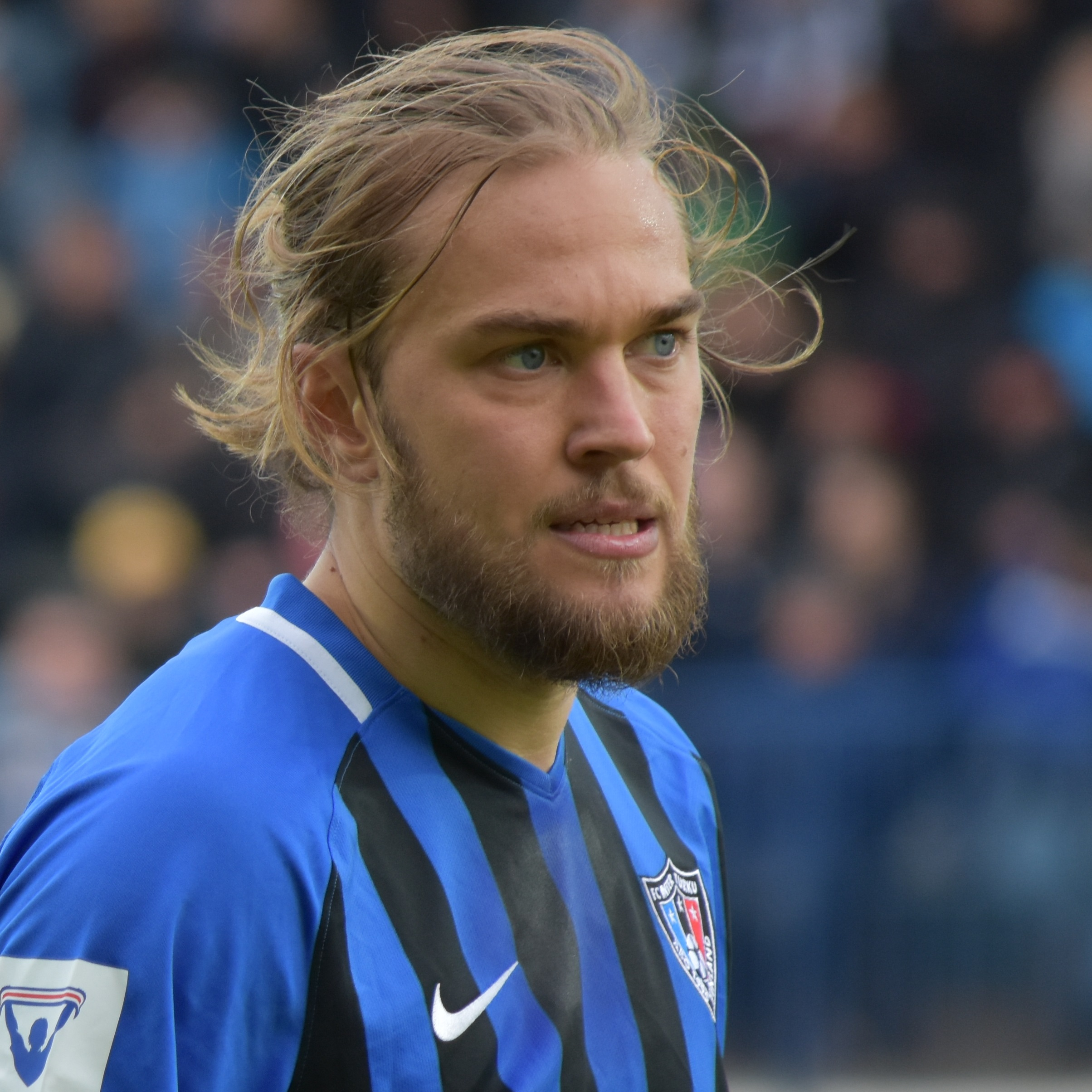 Football player Mika Ojala (FC Inter Turku)